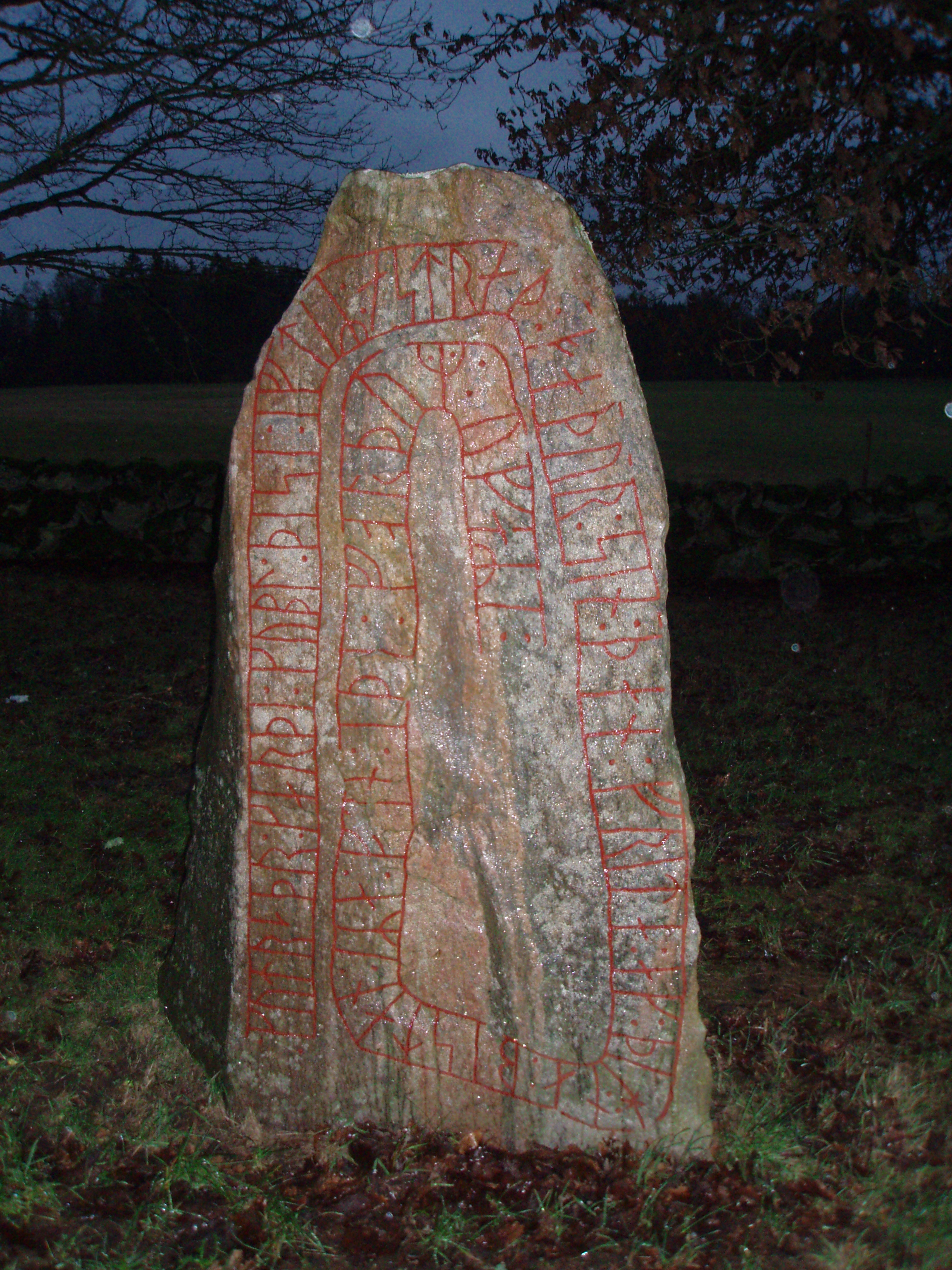 The runestone Sm 35. The inscription reads : kutraþr : karþi : kubl : þisi : iftiR : astraþ : faþur : sin : þan : frita : ak : þih:na : bistan : iR a : f-iþ- : forþum : uf| |faRi :. In English "Gautráðr made these monuments in memory of Ástráðr, his father, the best of kinsmen and Þegns, who formerly was in Finnheiðr."